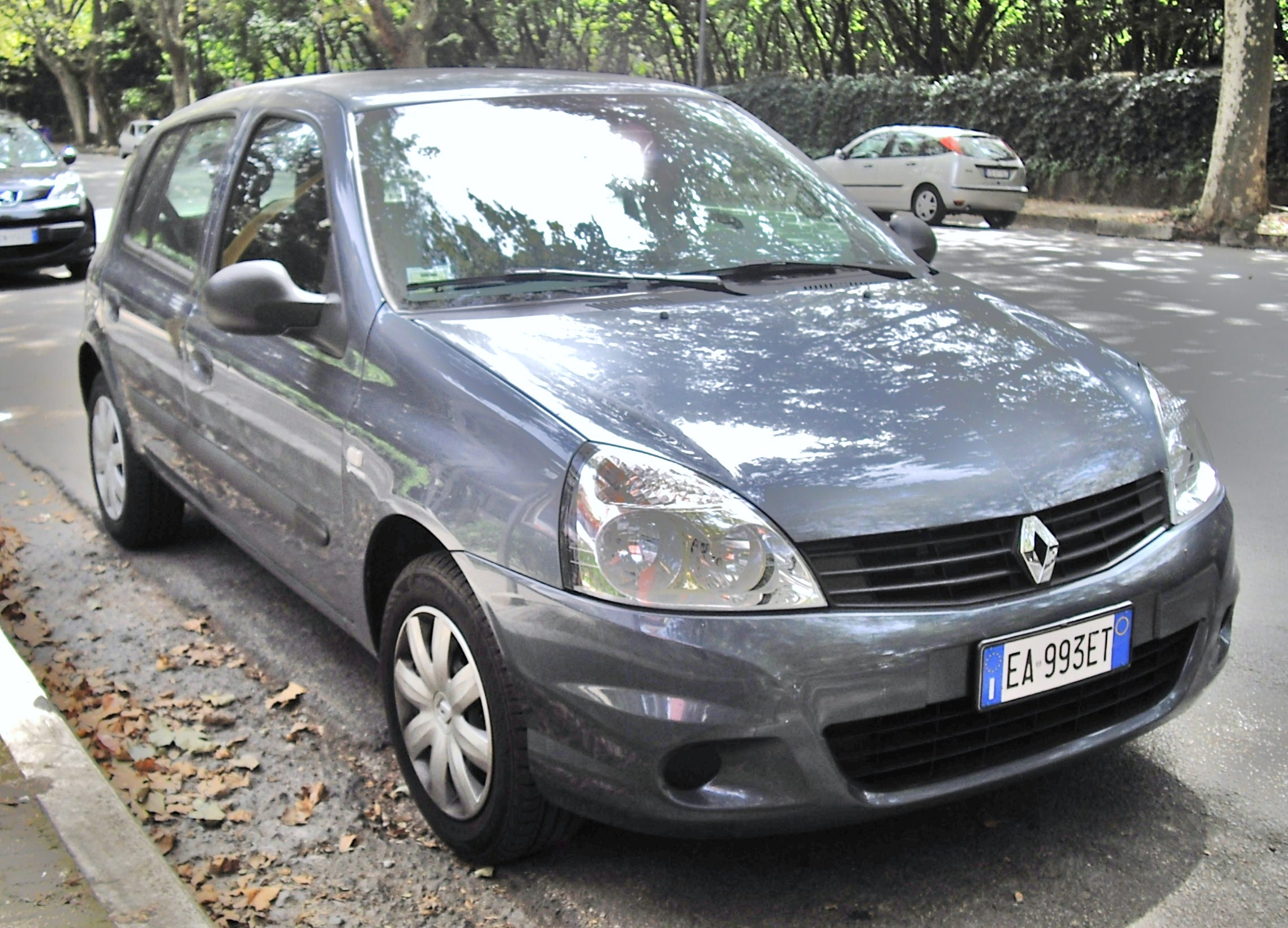 2009 Renault Clio Storia front